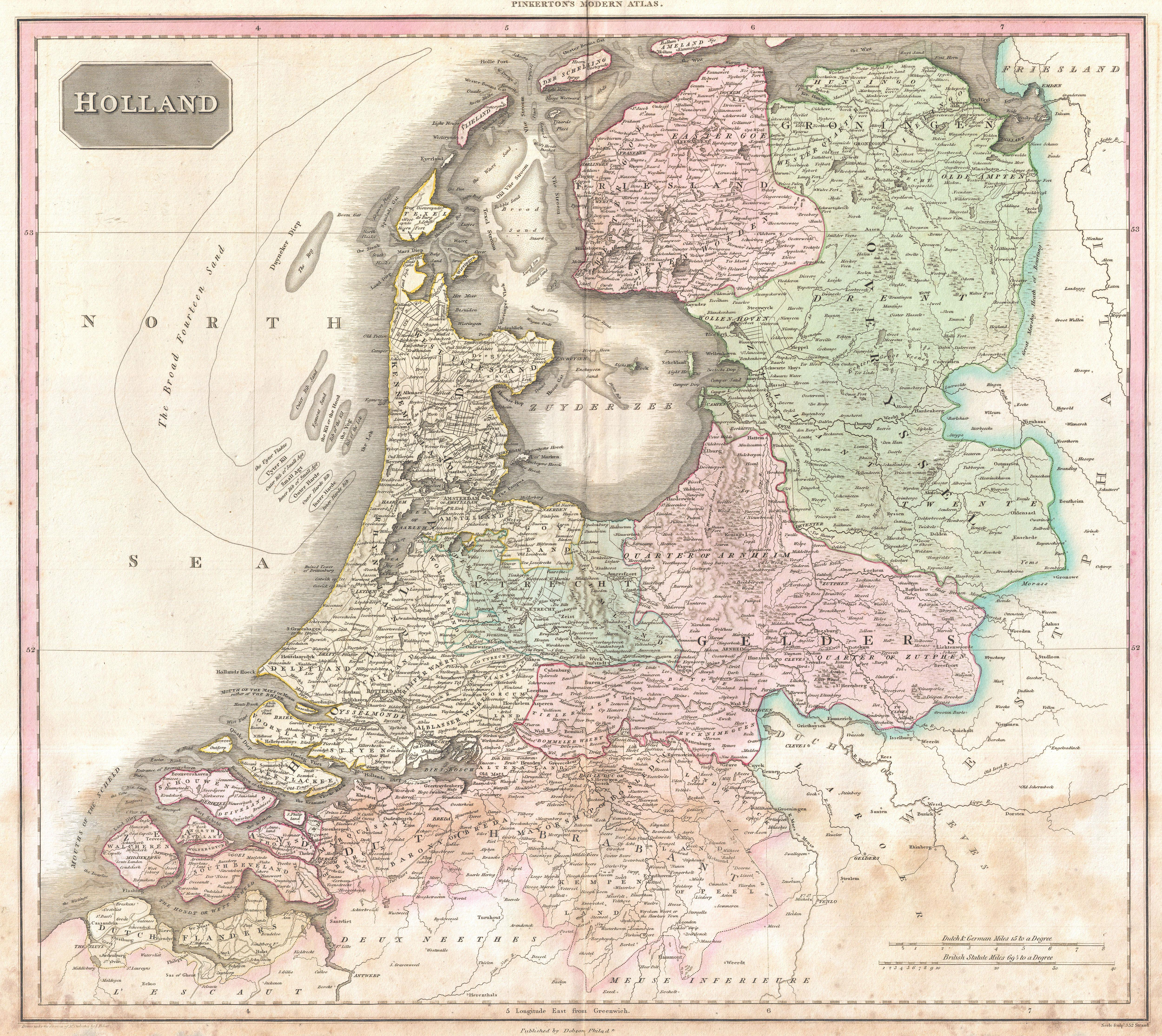 Pinkerton's extraordinary 1818 map of Holland. Covers what is essentially today's Netherlands between the Belgium and Germany. Offers excellent undersea detail regarding various shoals and other dangers, including the Broad Fourteen Sand. Also shows the elaborate system of canals and irrigation networks throughout the region. Offers considerable detail with political divisions and color coding at the regional level. Identifies cities, towns, castles, important battle sites, castles, swamps, mountains and river ways. Title plate in the upper left quadrant. Two mile scales, in Dutch and German Miles and British Statute Miles, also appear in the lower right quadrant. Drawn by L. Herbert and engraved by Samuel Neele under the direction of John Pinkerton. This map comes from the scarce American edition of Pinkerton’s Modern Atlas, published by Thomas Dobson & Co. of Philadelphia in 1818.